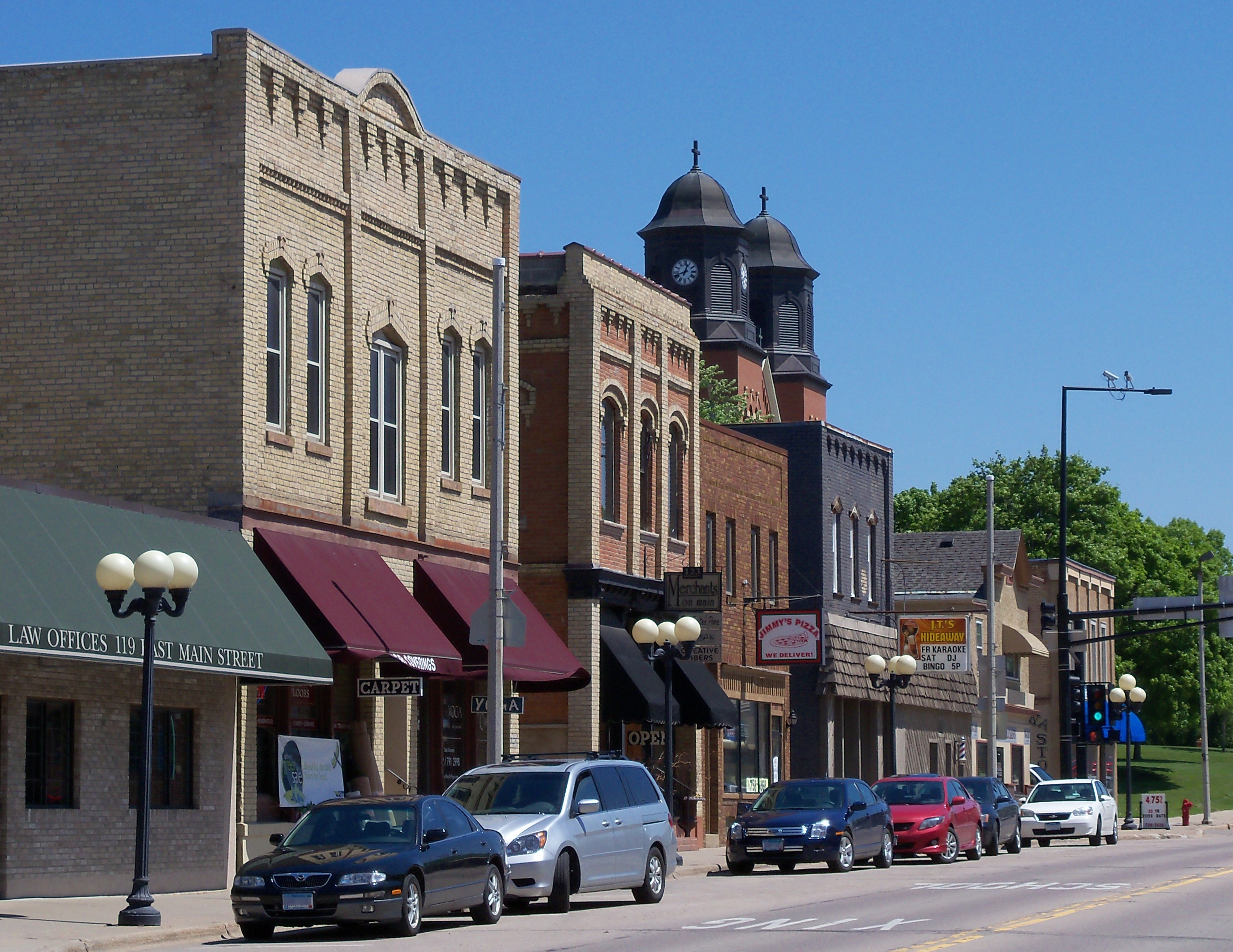 Street in downtown New Prague, Minnesota, USA.